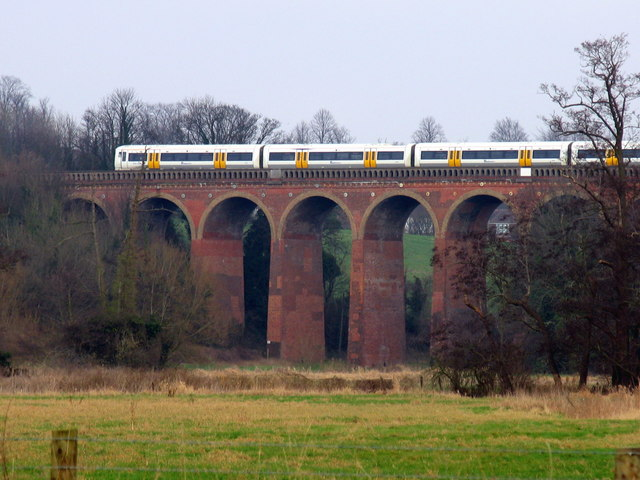 Lullingstone Viaduct This viaduct has carried trains over the Darenth Valley near Eynsford since the early 1860's.